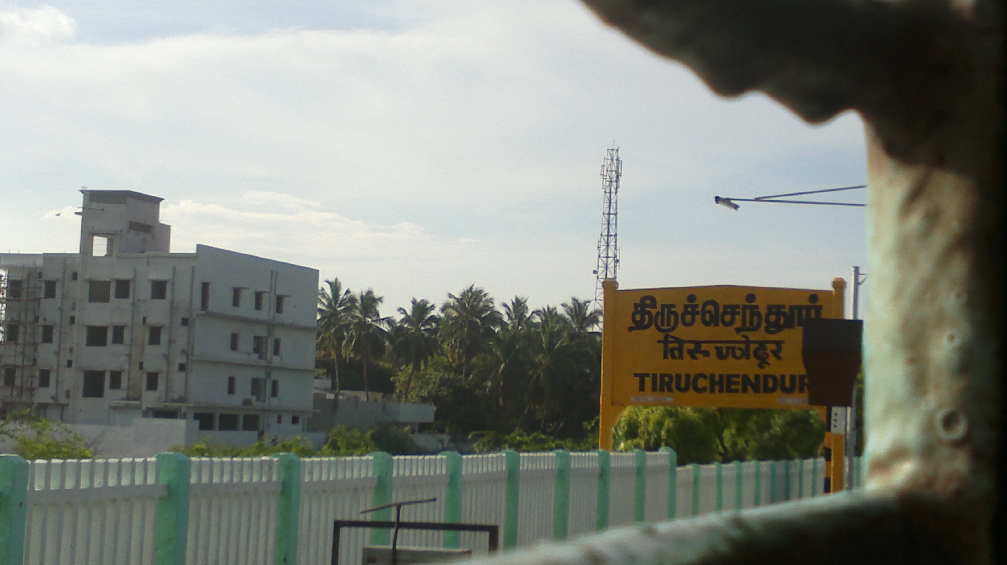 Tiruchendur R.S Name board